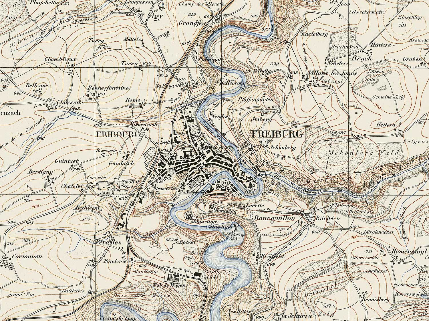 The city of Fribourg und the surrounding villages on the Siegfried Map of 1874, scale 1:25,000